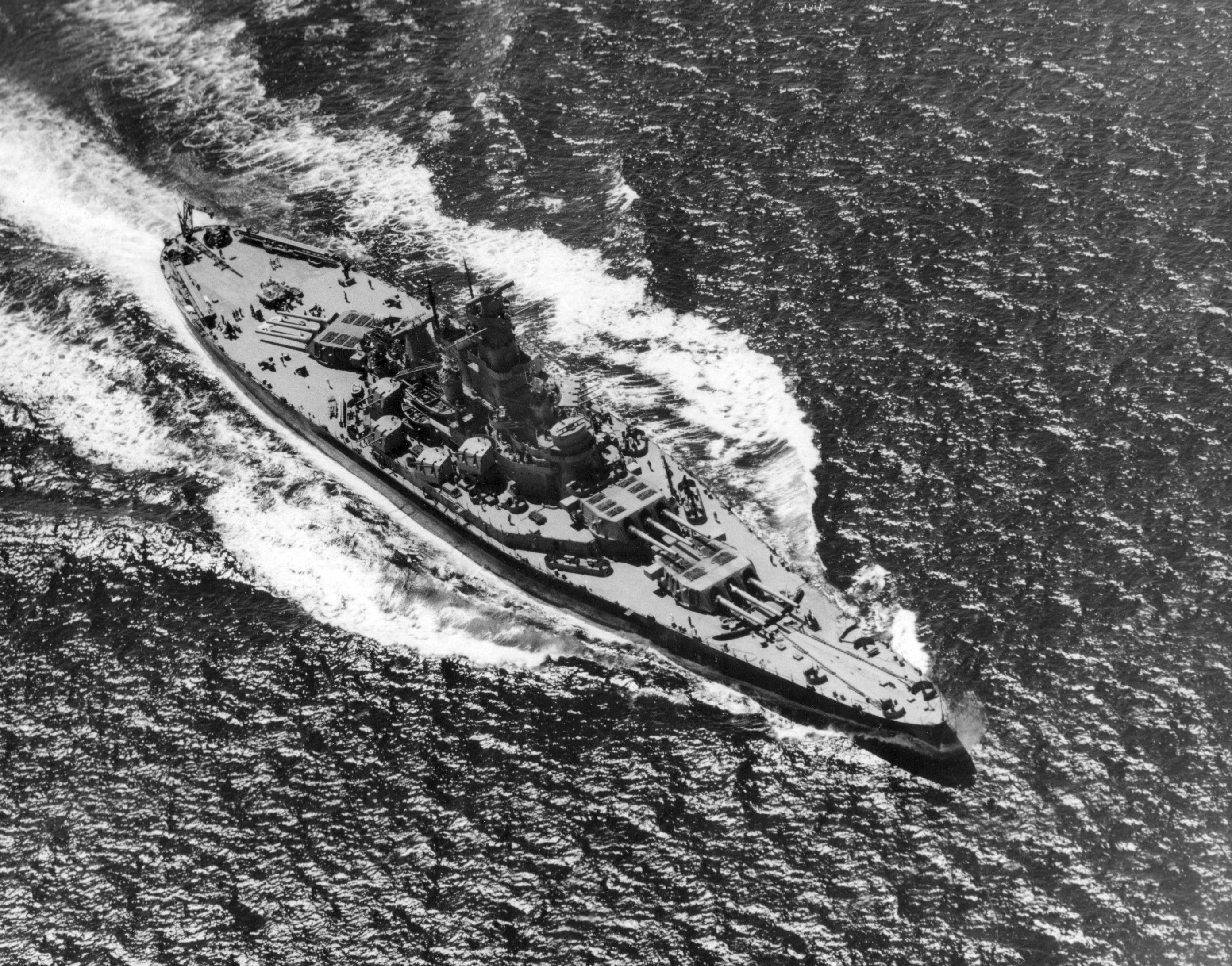 USN photo taken during her shakedown period, July 1942.